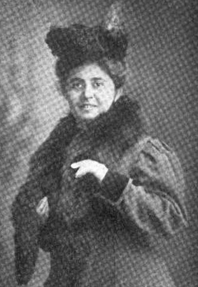 Delia Austrian, from a 1910 publication. A white woman smiling, wearing a coat, hat, and a fur stoll.